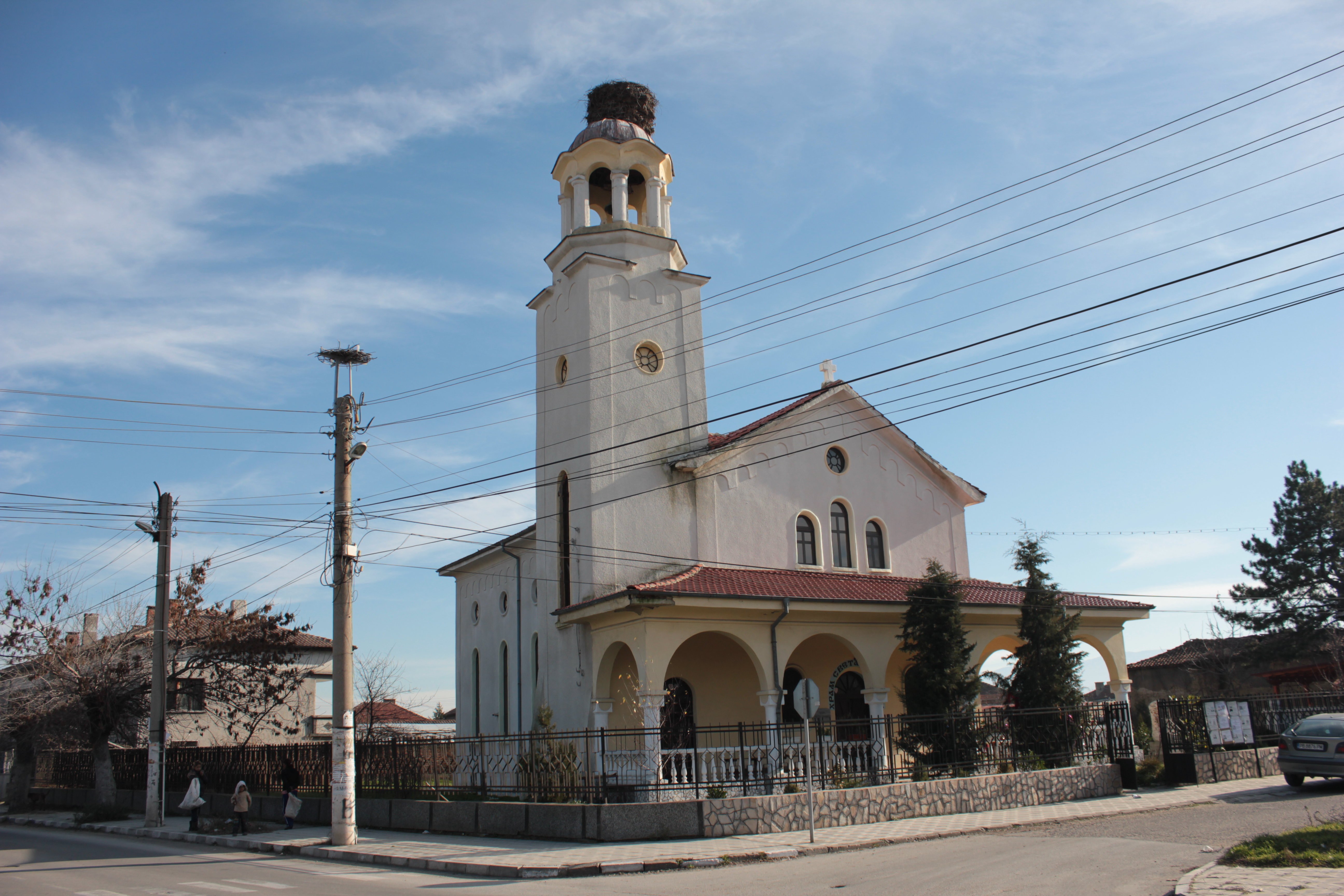 Saint Trinity Orthodox Church in Stamboliyski